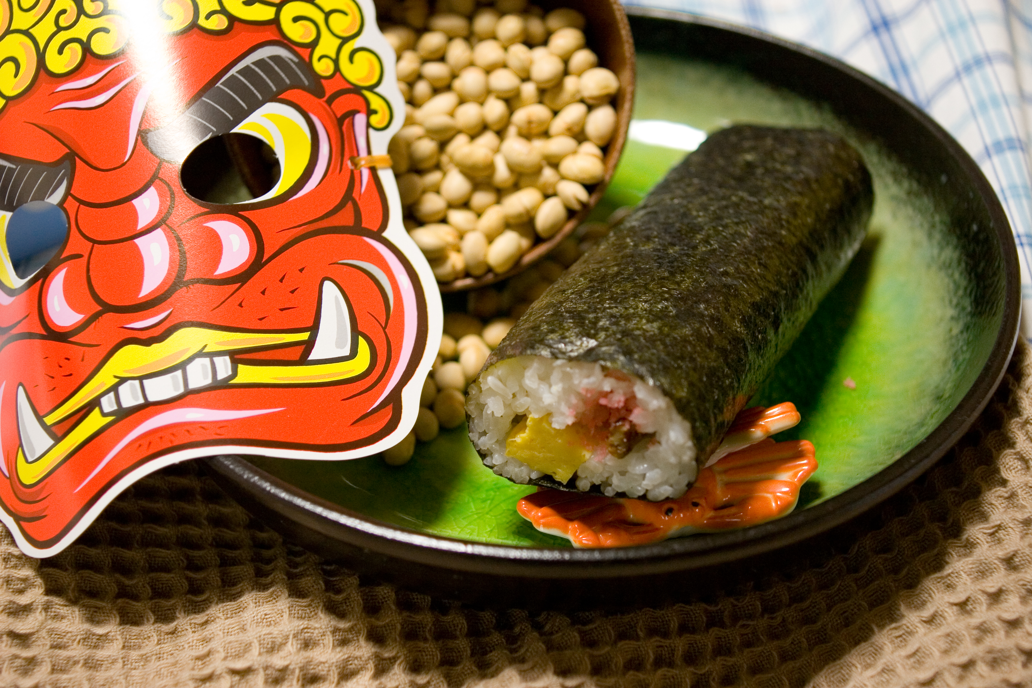 February third is the "Bean-throwing Ceremony" (Setsubun no hi), when we throw dried beans to drive demons away and invite fortune to come in!Pan-heated soybeans and Eho-maki (Lit. "lucky direction roll")